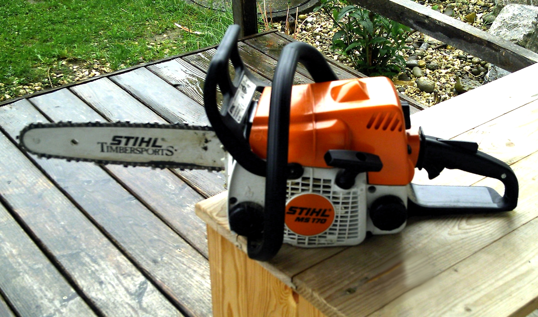 Chainsaw